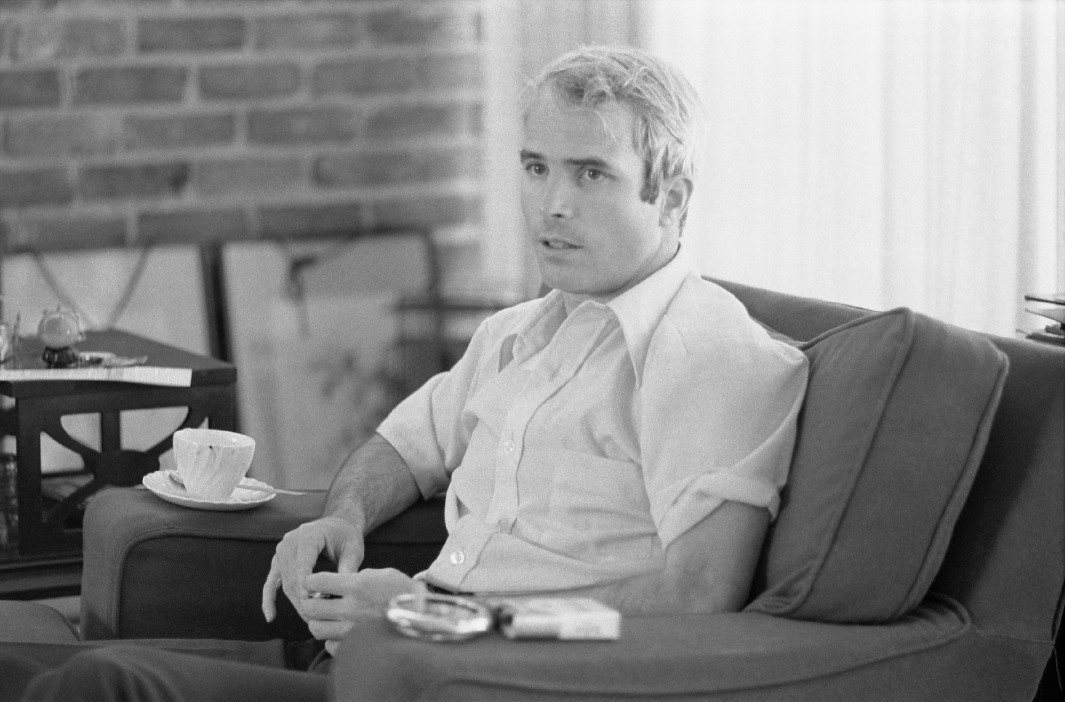 John McCain in an interview shortly after his release from POW camp.